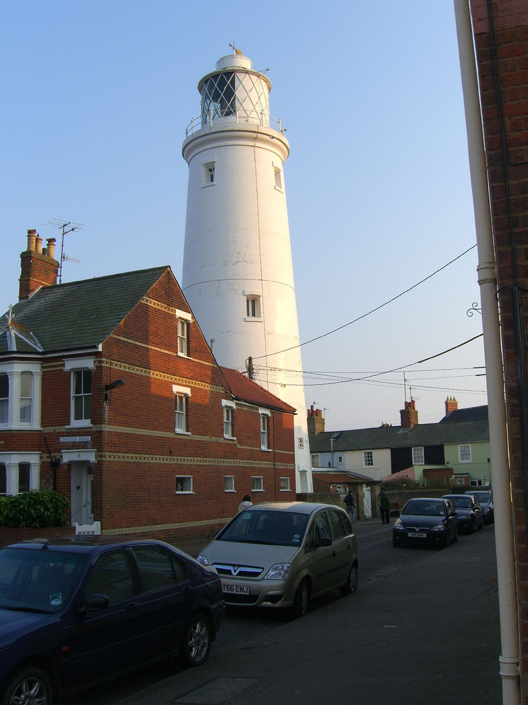 The Lighthouse at Southwold, Suffolk, England